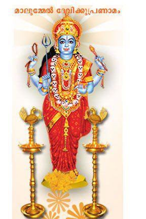 Malumel Bhagavathi